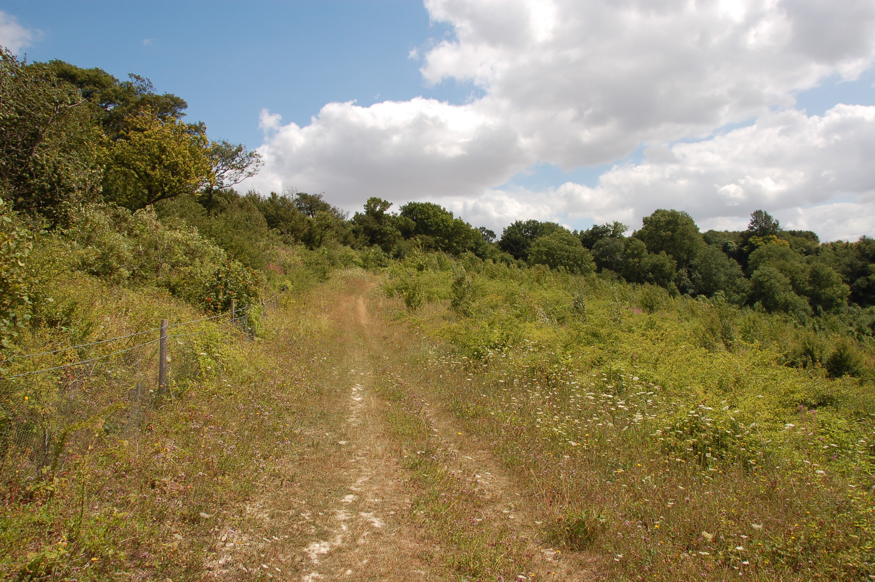 Description: The North Downs Way near Hollinbourne Author: Alfred Gay Source: Self Made Date: 25th March 2007